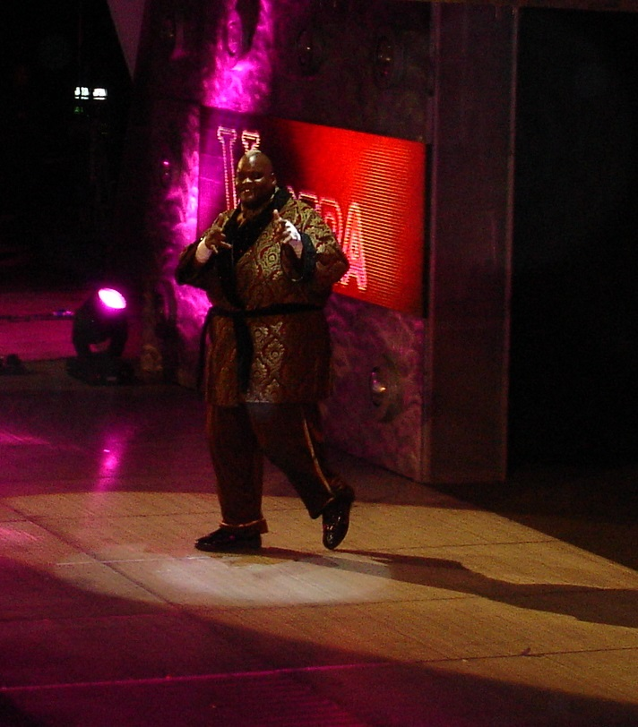 Viscera entering arena at on Raw, August 1, 2005